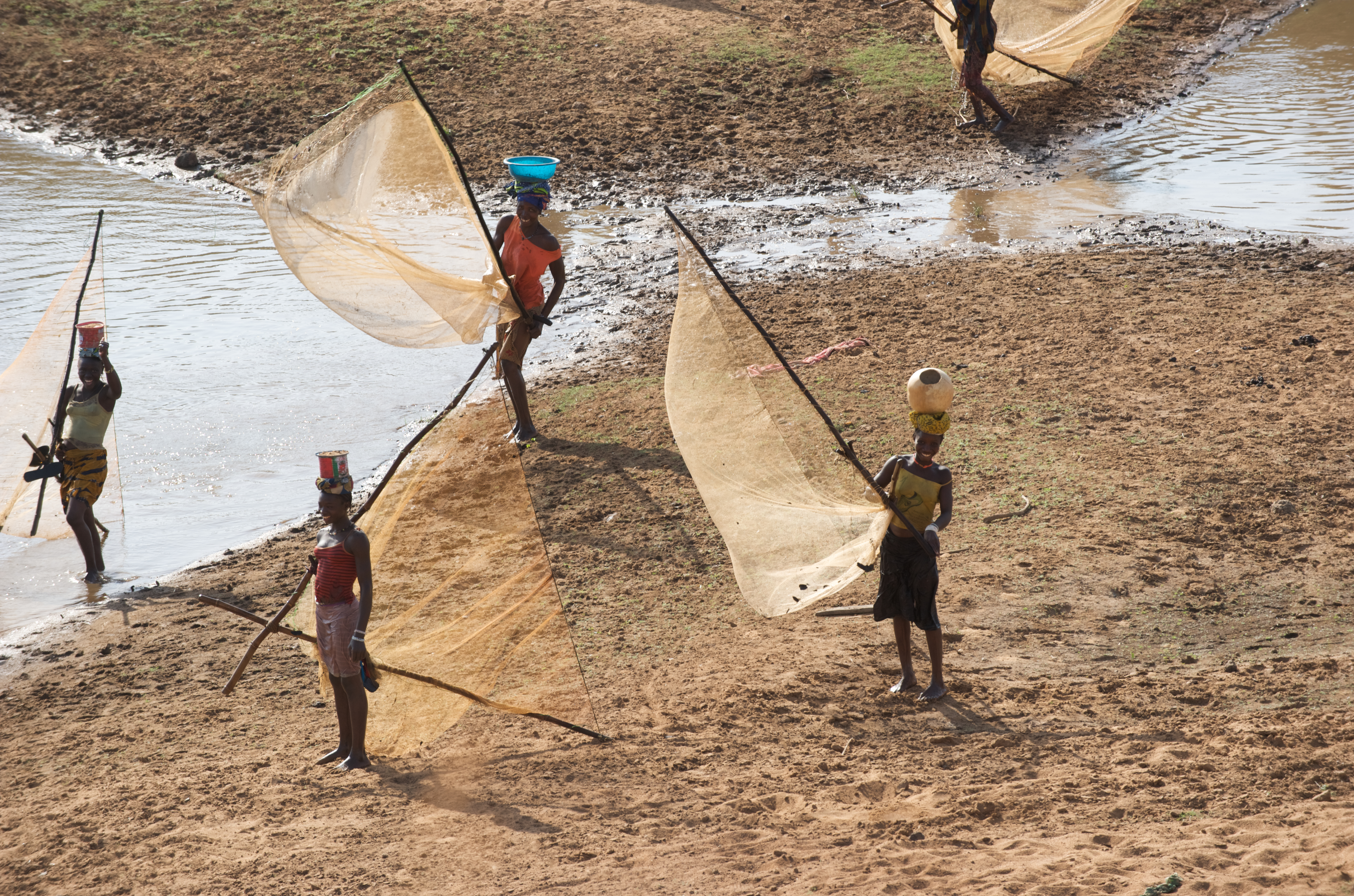 Women fishing on River Niger in Guinea, Africa